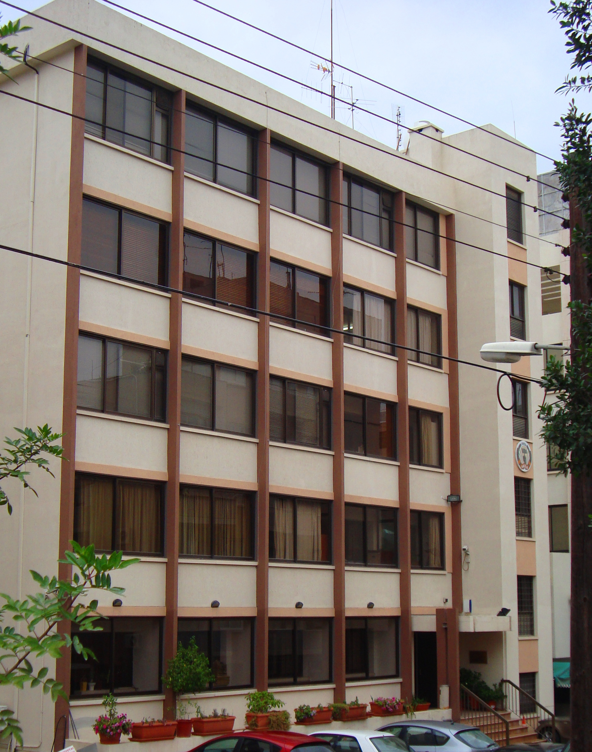 Progressive Party of Working People